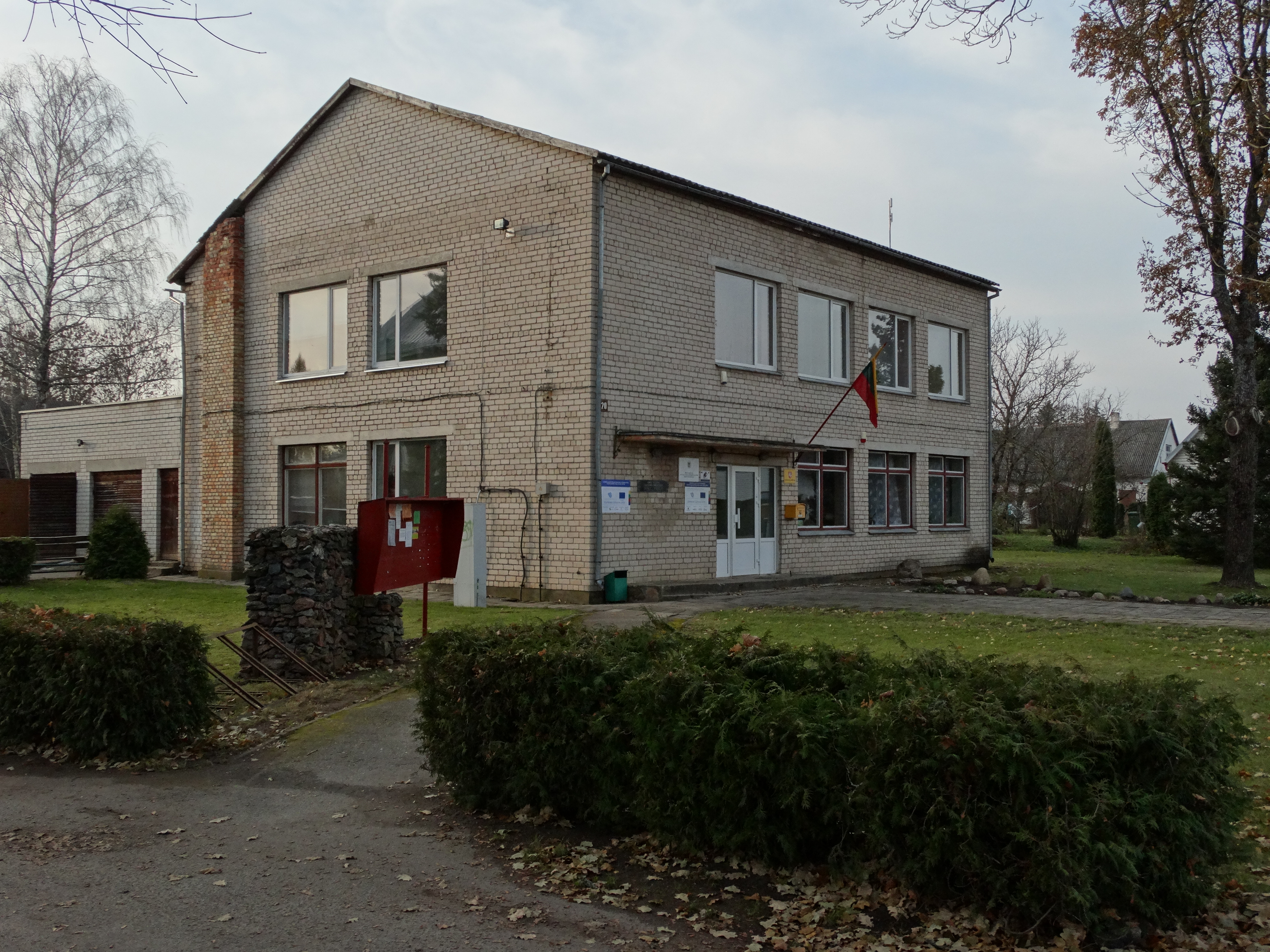 Eldership, Papilys, Biržai district, Lithuania